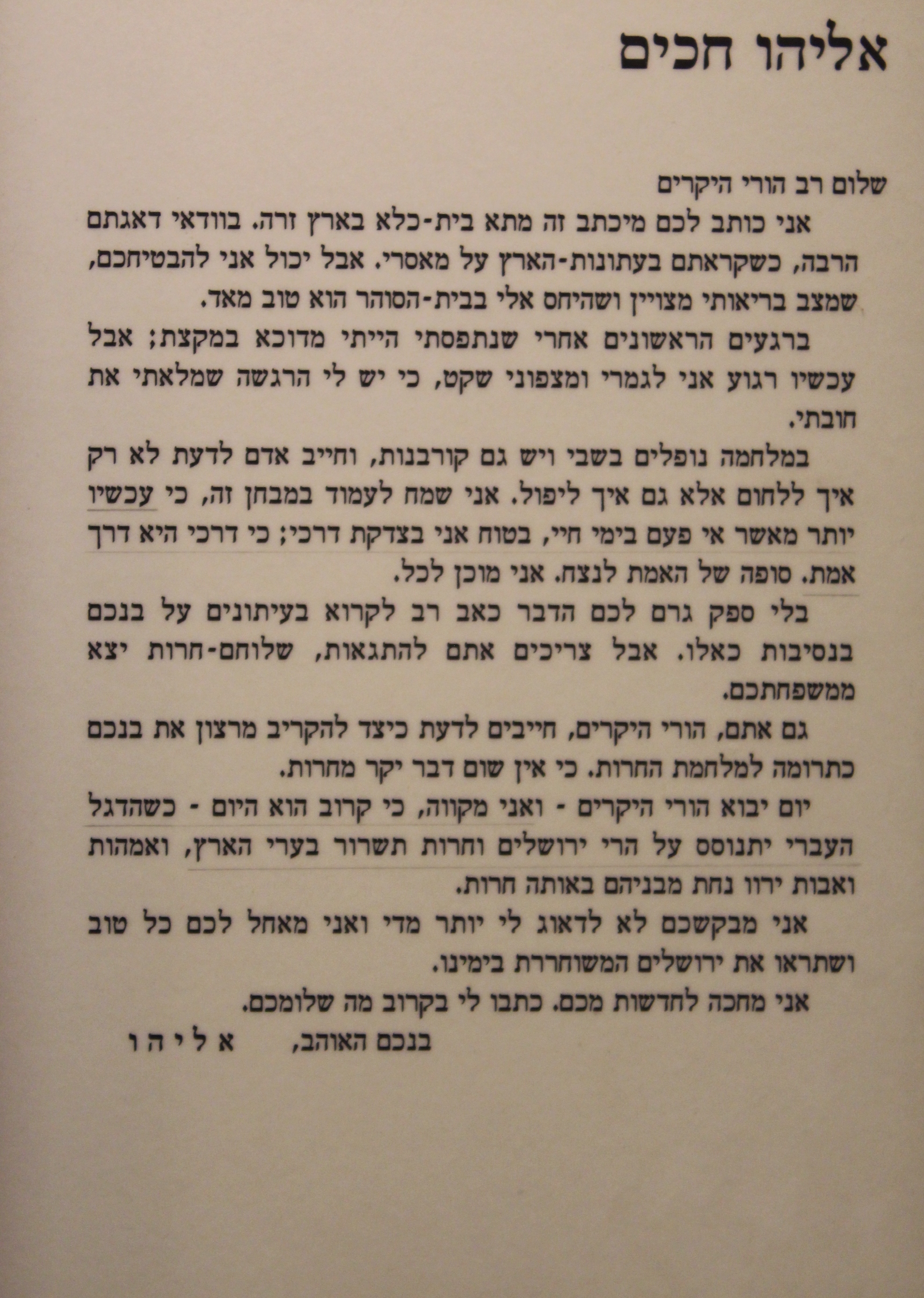 The Lehi Museum, also known as Beit Yair, is placed in the house where the Lehi commander, Avraham Stern (Yair) was assassinated. Including the room where Abraham Stern, Lehi commander, was murdered by a British policeman on 12/2/1942. The site's ID in Wiki Loves Monuments photographic competition is 3-5000-037